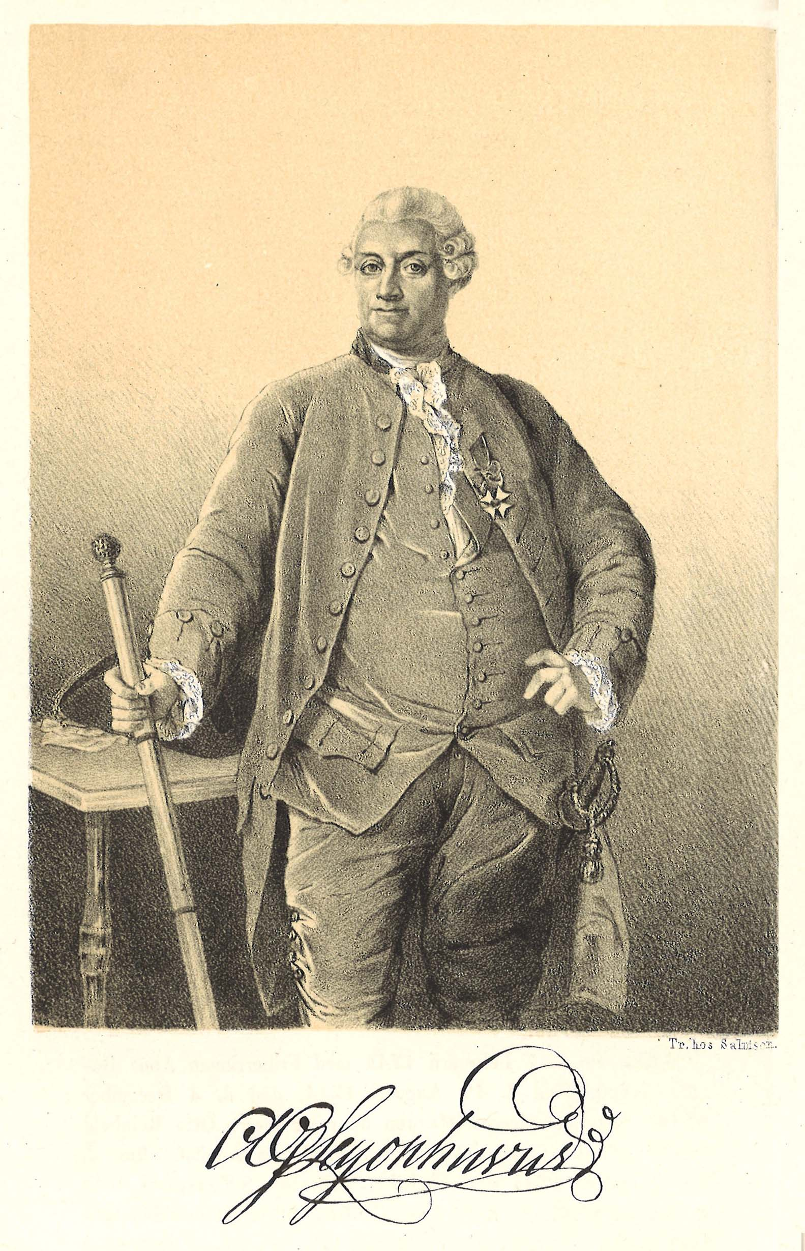 Axel Gabriel Leijonhufvud (1717-1789), Swedish baron, courtier, officer and "lantmarskalk" (chairman of the estate of nobility).